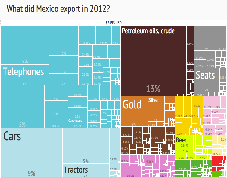 "2012 Mexico Products Export Treemap"